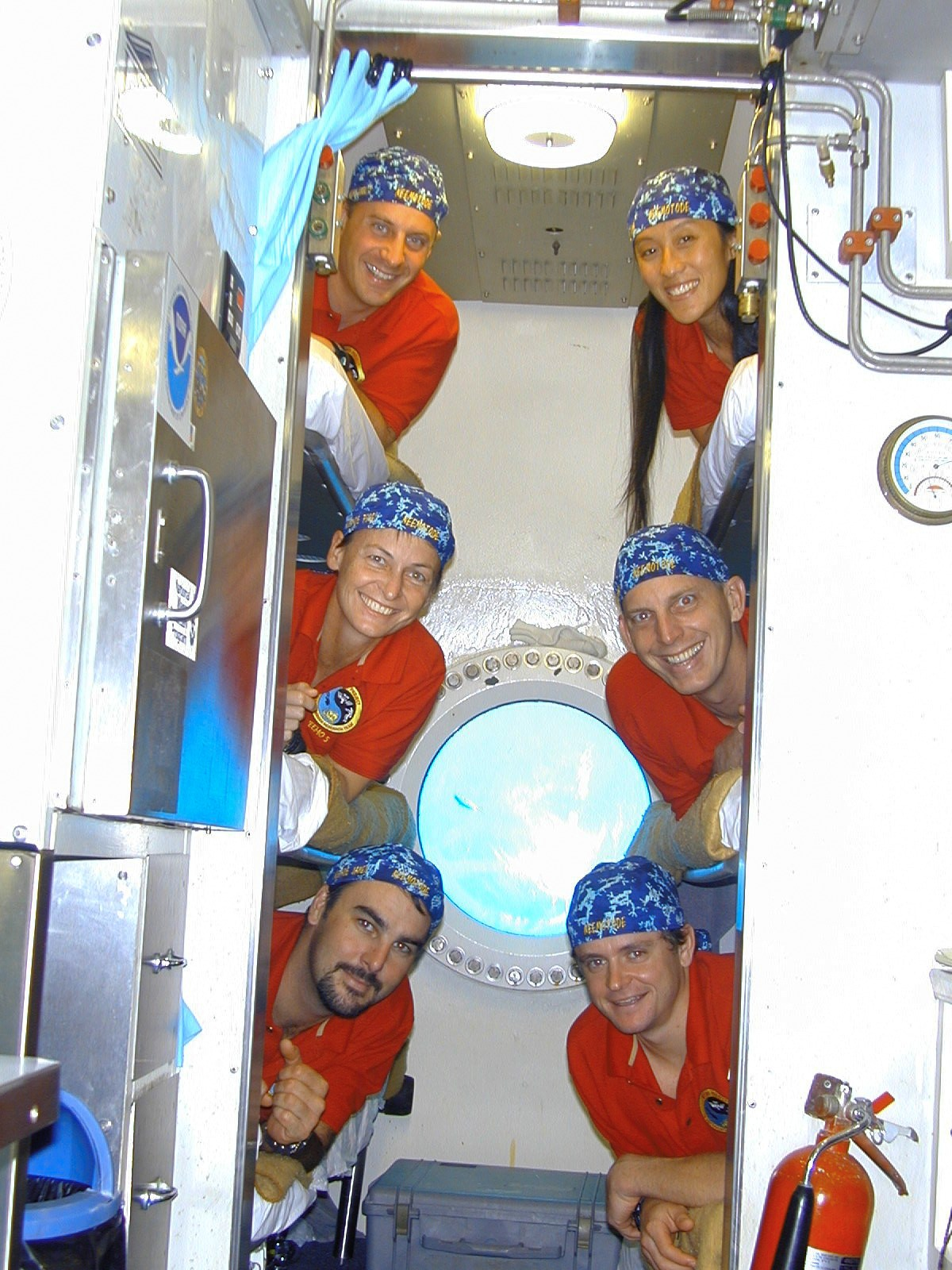 NEEMO 5 crew members are pictured in the bunkroom aboard the Aquarius research habitat. They are (top, left to right) astronaut Garrett E. Reisman and NASA scientist Emma Hwang; (middle) astronaut Peggy A. Whitson, commander; and Clayton C. Anderson; and (bottom) habitat technicians James Talacek and Ryan Snow, employees of the National Undersea Research Center (NURC).